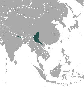 Long-tailed Mountain Shrew (Episoriculus macrurus) range